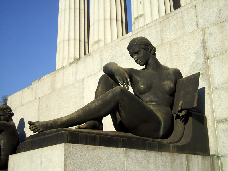 Monument to Ramos de Azevedo, allegorical representation of Painting (São Paulo, Brazil), by Galileo Emendabili